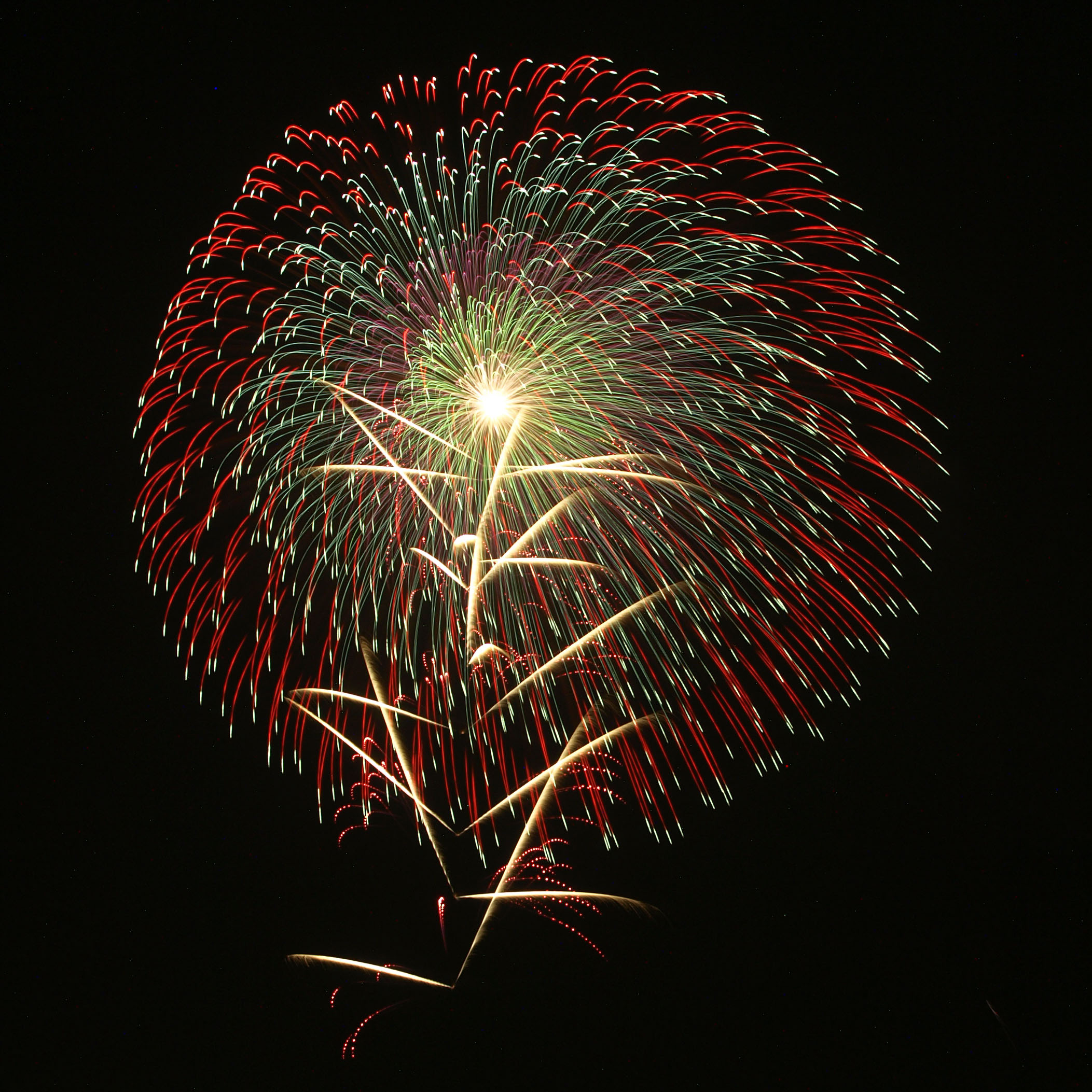 78th Tsuchiura All Japan Fireworks Competition. Olympus E-510